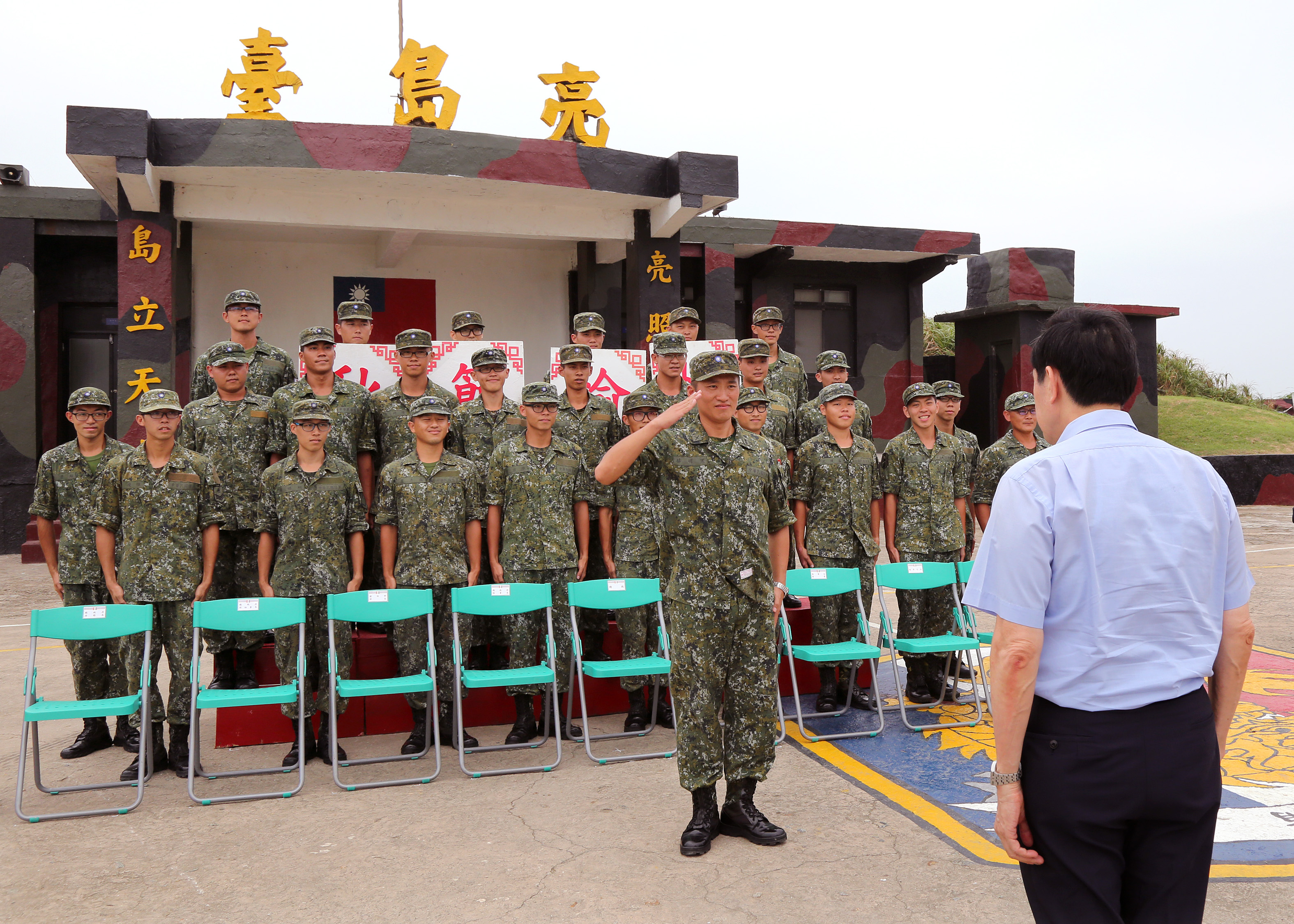 President Ma Ying-jeou visits Liang Island, Beigan, Lienchiang (Matsu Islands), ROC (Taiwan)